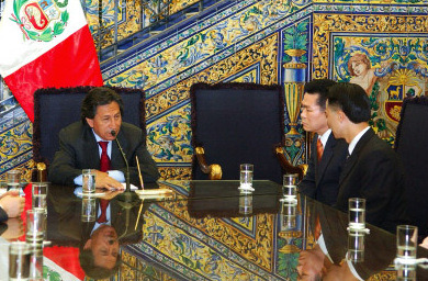 On November 30, 2004, Peruvian President Alejandro Toledo invited Rev. Dr. Jaerock Lee to the presidential residence for a friendly dialogue. President Toledo expressed his appreciation to Rev. Lee for visiting Peru to conduct the Crusade, and asked him to pray for the unity, peace, and prosperity of Peruvian people, as well as his health and family.